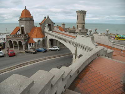 The Monk's Tower, another iconic building.